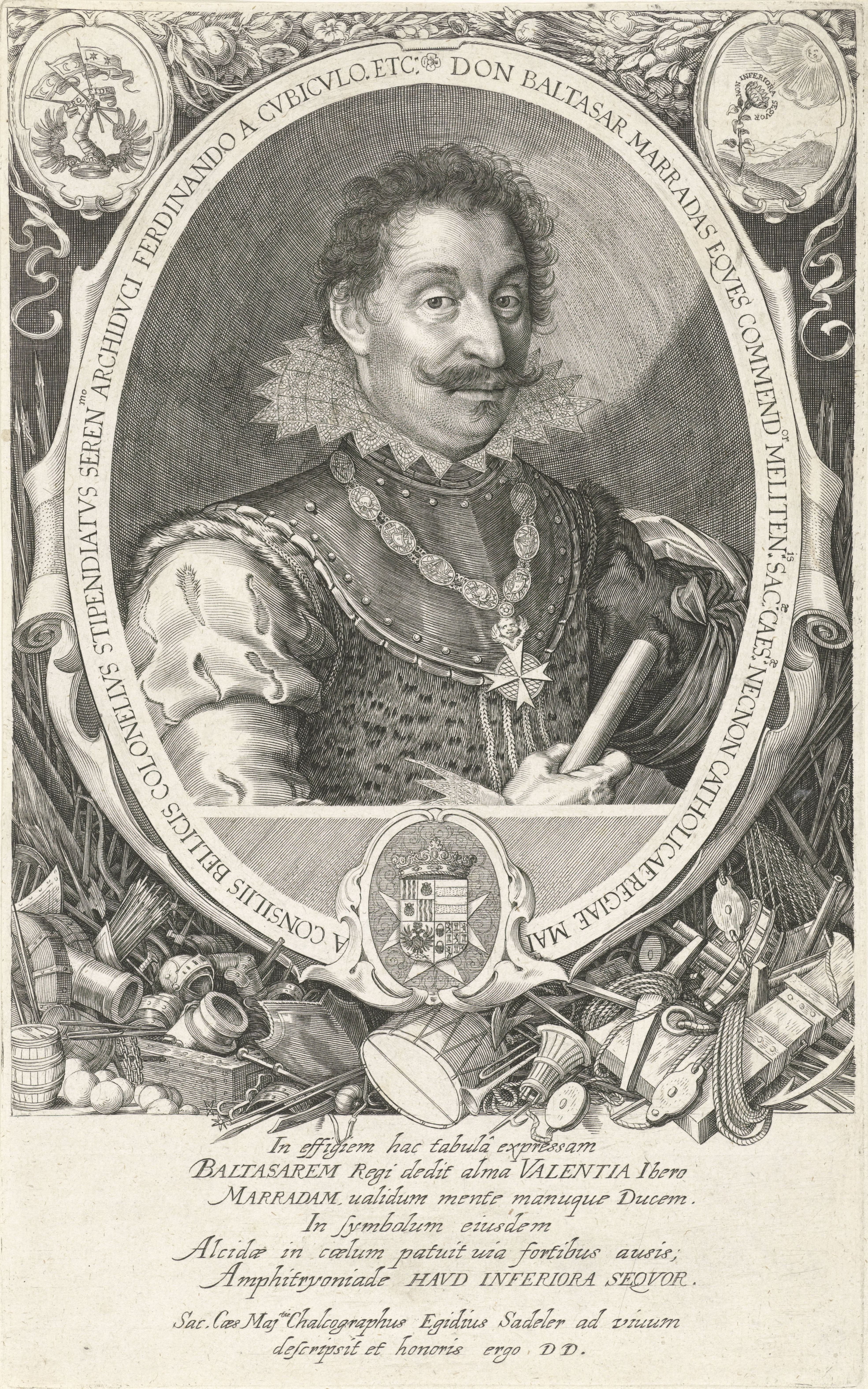 Portrait of Baltasar Marradas